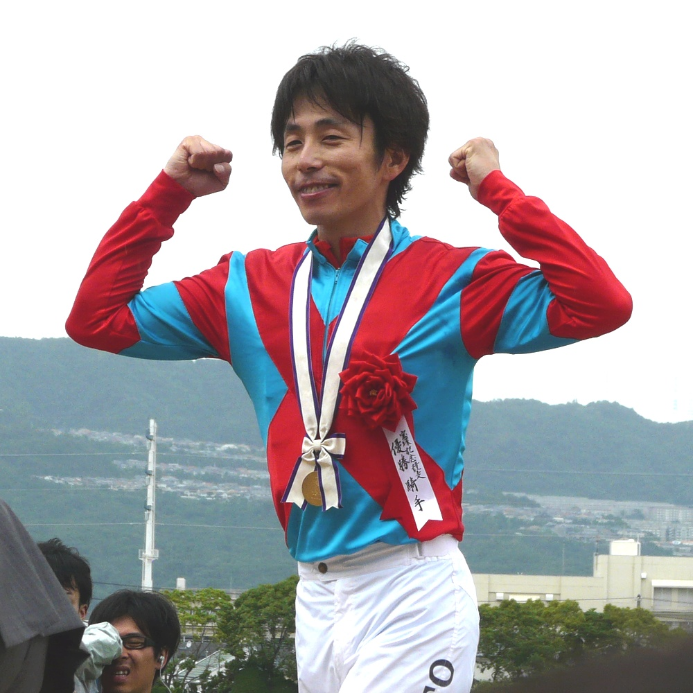 Tetsuzo-Sato20110626